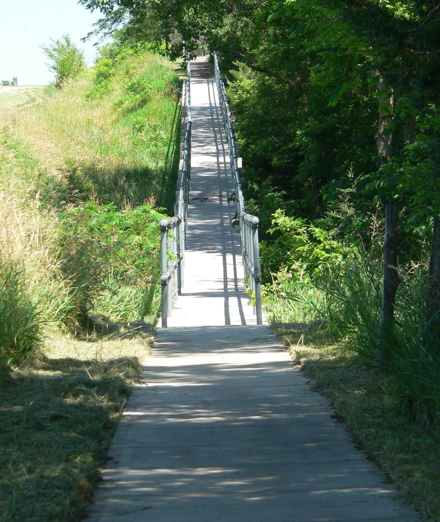 East slope of Nelson Cemetery Walk on the outskirts of Nelson, Nebraska; seen from the west. The walk begins at the top of the hill at top center, descends into an ephemeral stream channel (from which the photo was taken), then rises again behind the camera position to the hilltop on which the cemetery is located. The walk was constructed in 1912, and is listed in the National Register of Historic Places.